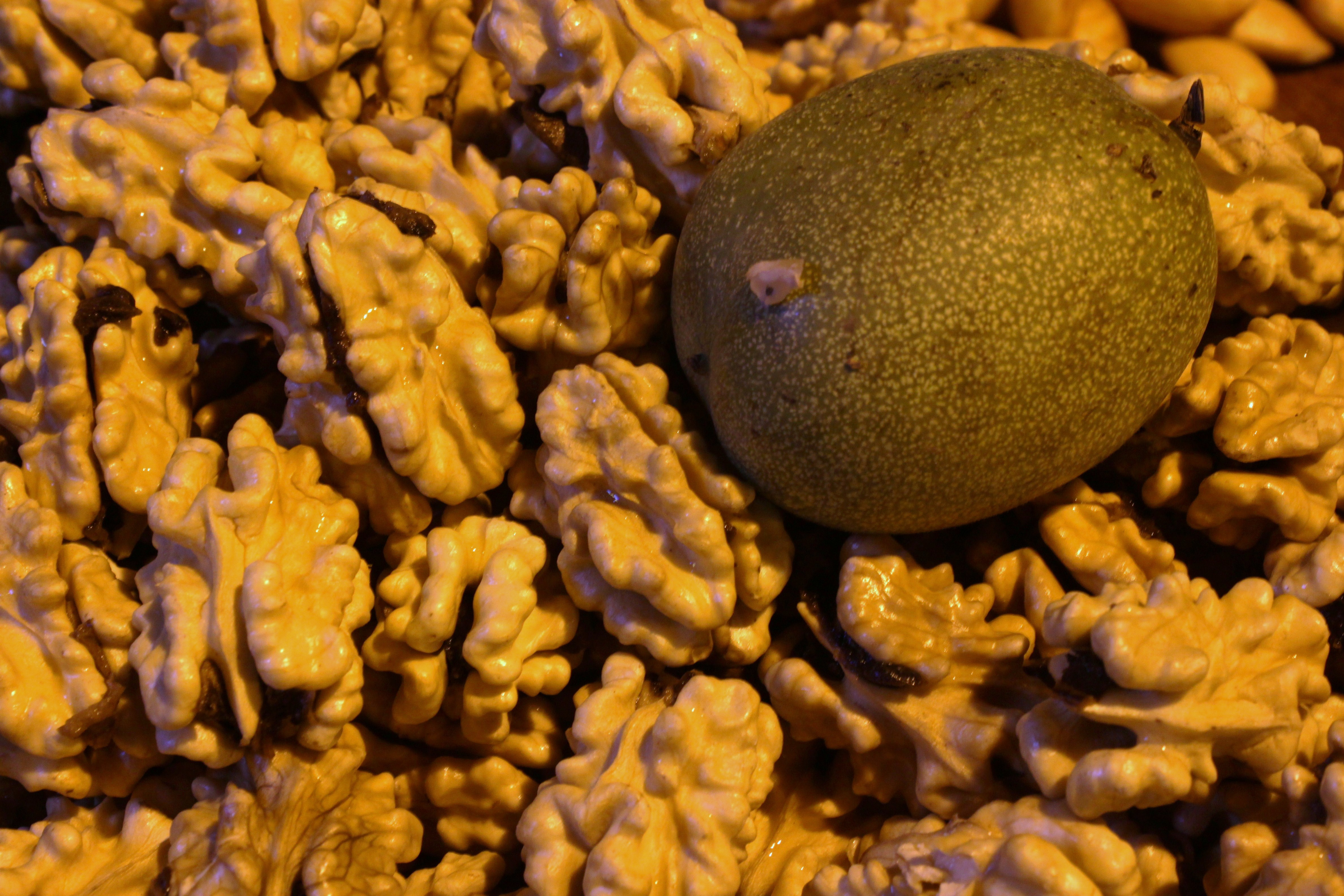 Walnuts on a peddler's tray.